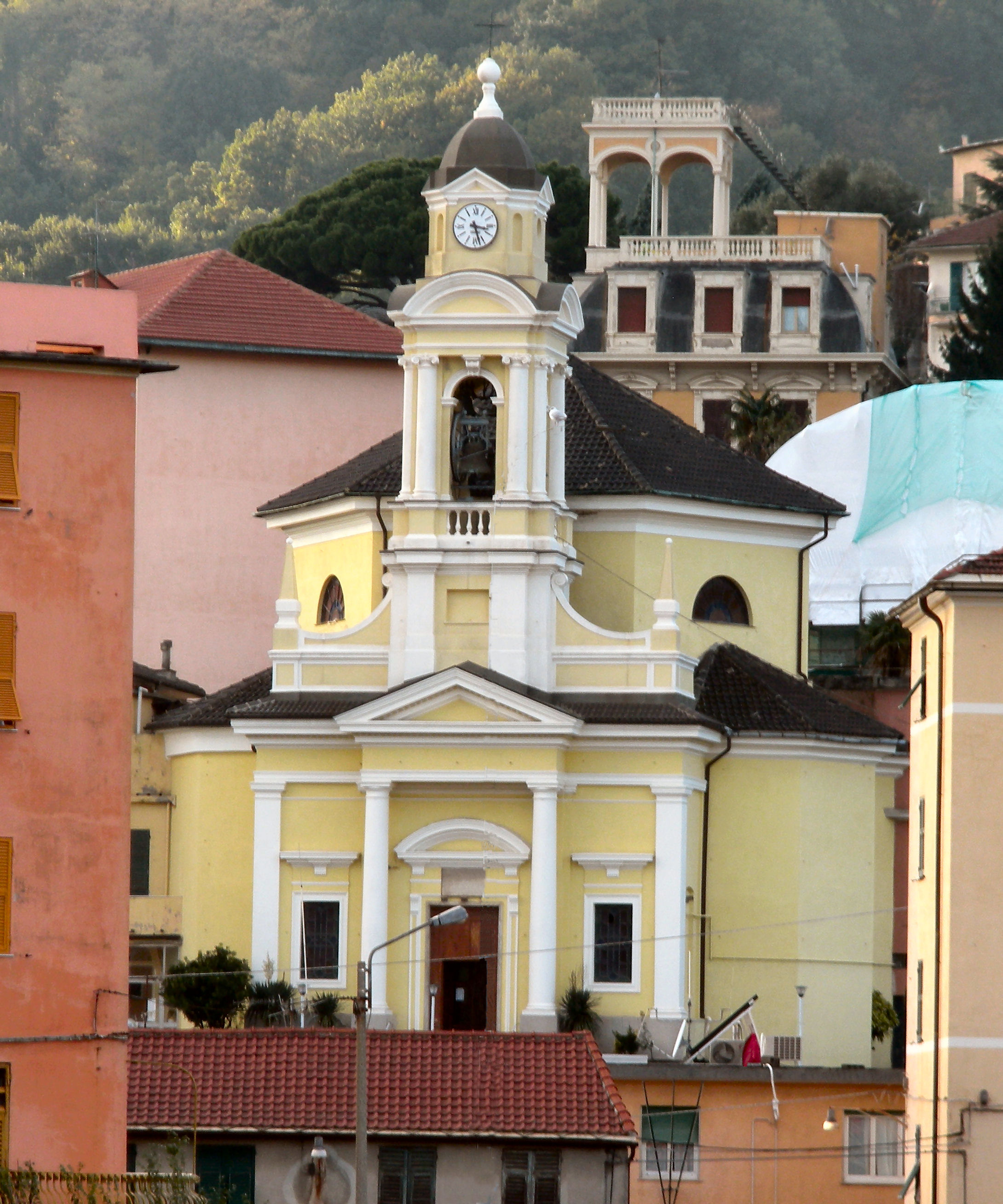 Genoa, Rivarolo (Italy), church of N.S. dell'Aiuto